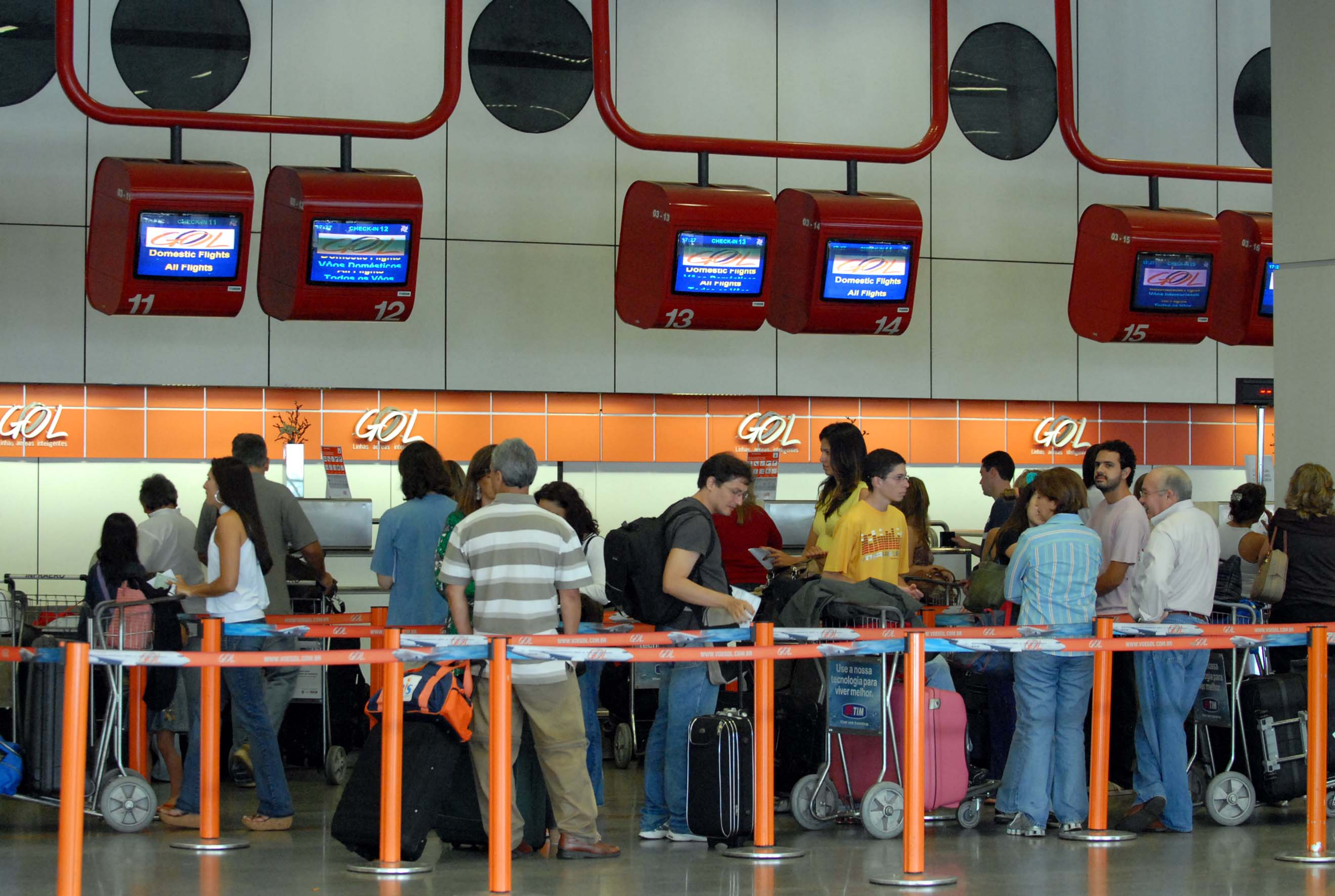 Brasília - Passengers waiting at the Gol Transportes Aéreos ticket counter at Brasilia Airport; the airline received a fine due to an over six hour delay for a flight from São Luís to São Paulo.